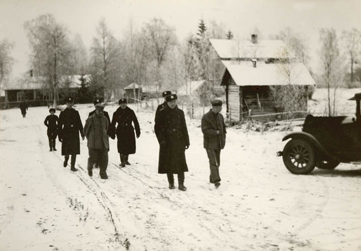 Suspected murderers of Social Democrat politician Onni Happonen (1898–1930) Puustinen & Pakarinen brought into justice in Heinävesi, Finland 1933.